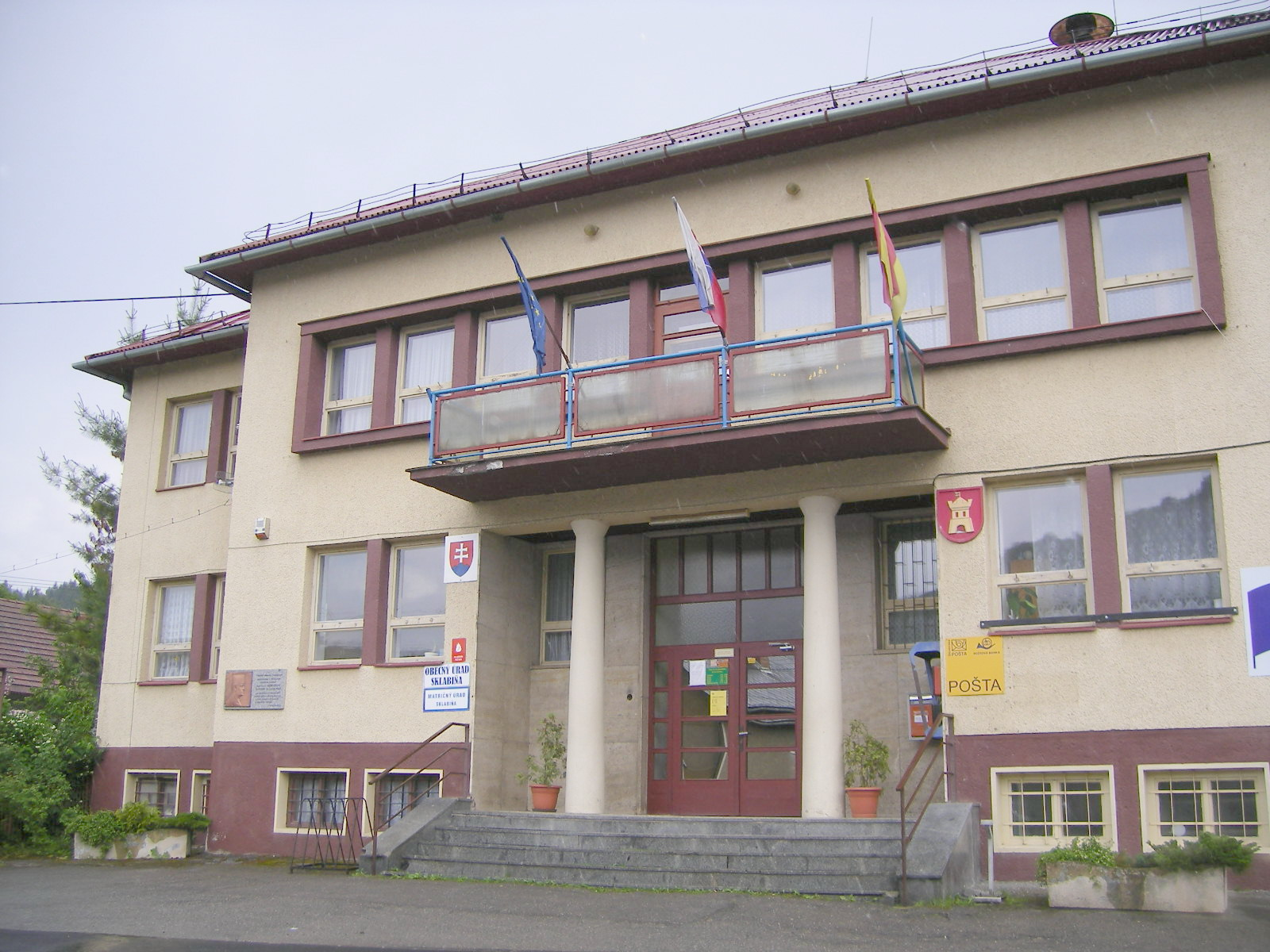 Sklabiňa - town hall